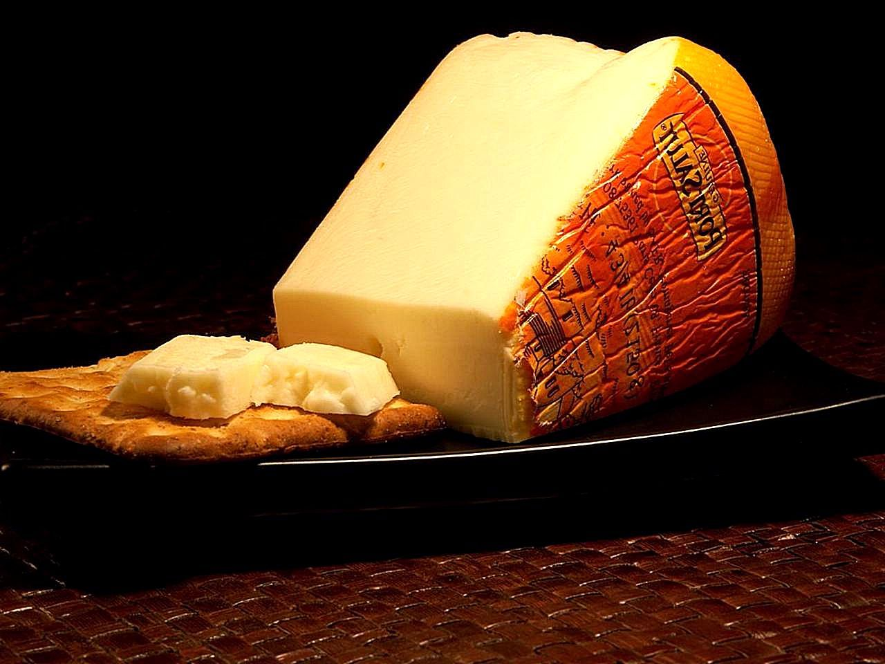 Image title: Port salut cheese Image from Public domain images website